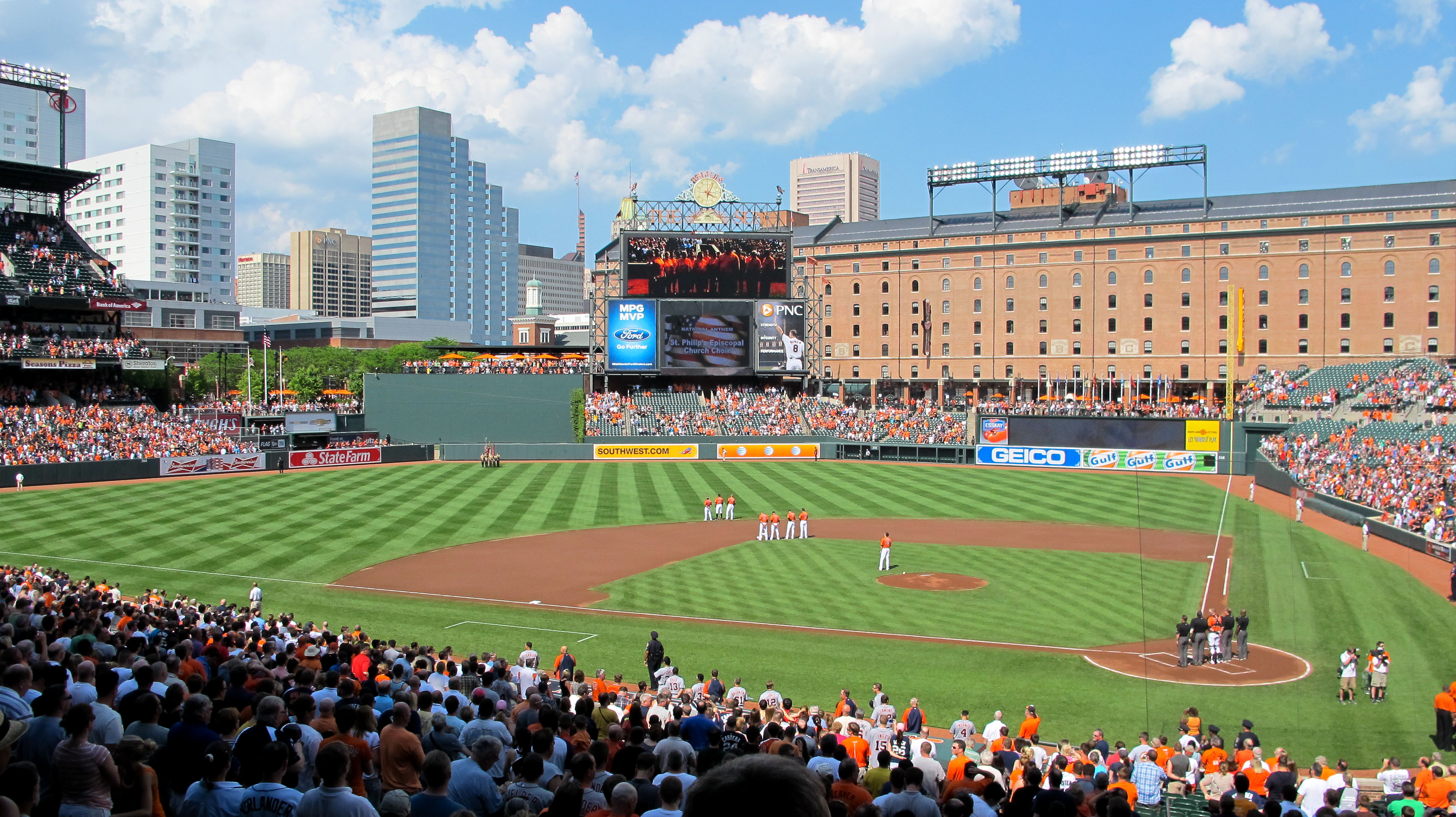 Oriole Park at Camden Yard during that national anthem prior to an afternoon game.